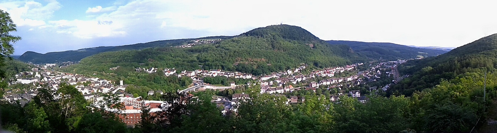 Panoramic view of Kirn, Germany. Shot from the Kyrburg.